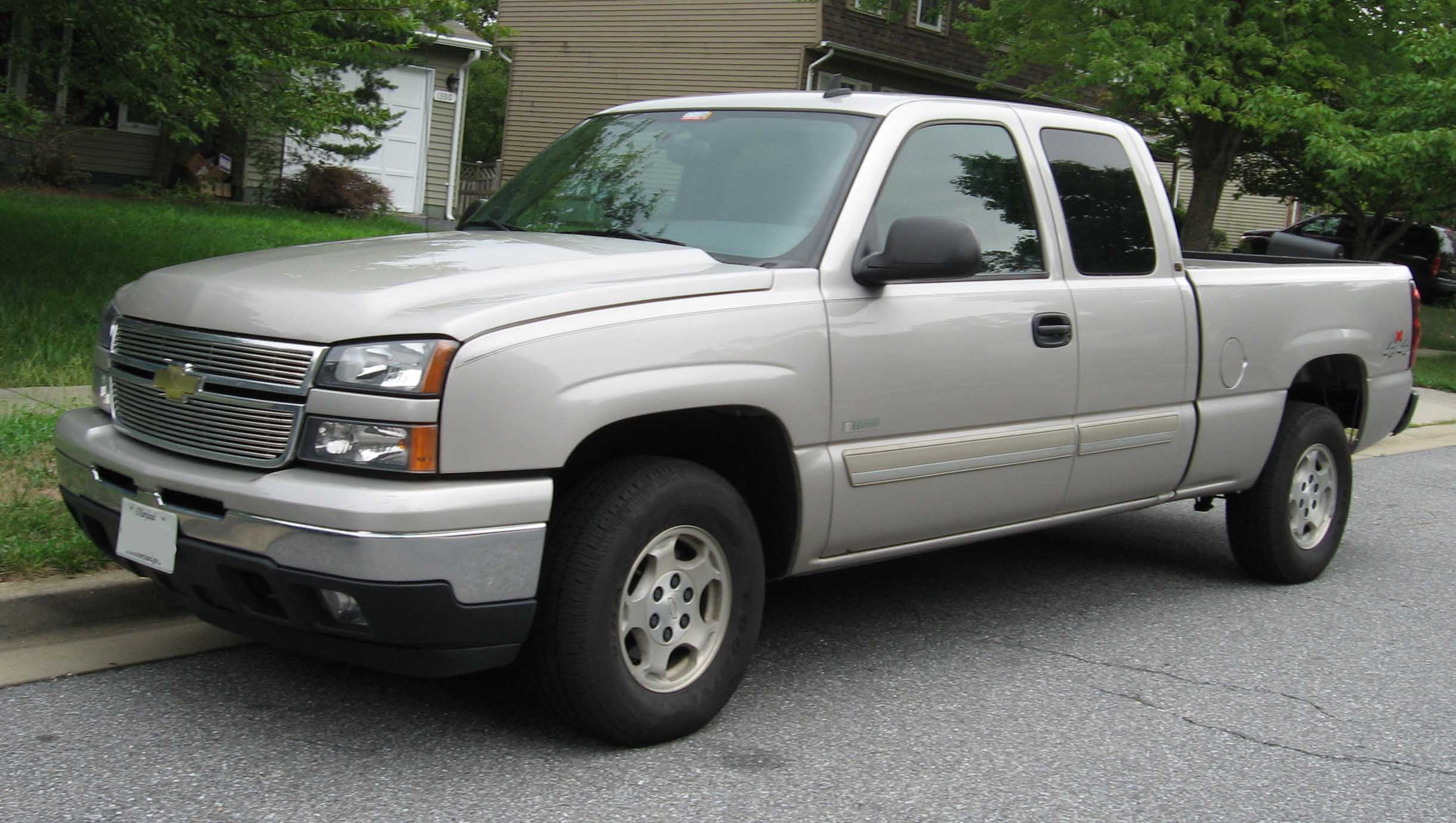 2005-2006 Chevrolet Silverado photographed in USA.